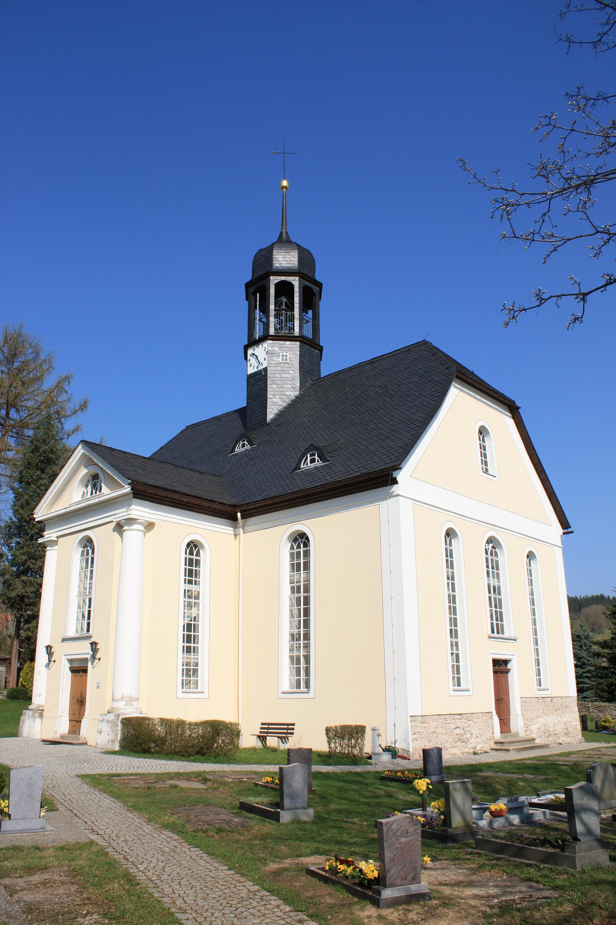 Hermannsdorf Church